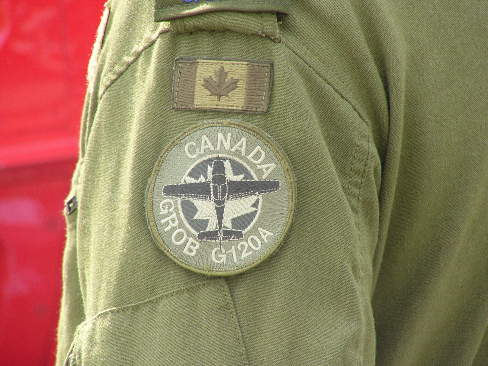 A Grob G-120 aircraft type badge worn by a student from 3CFFTS